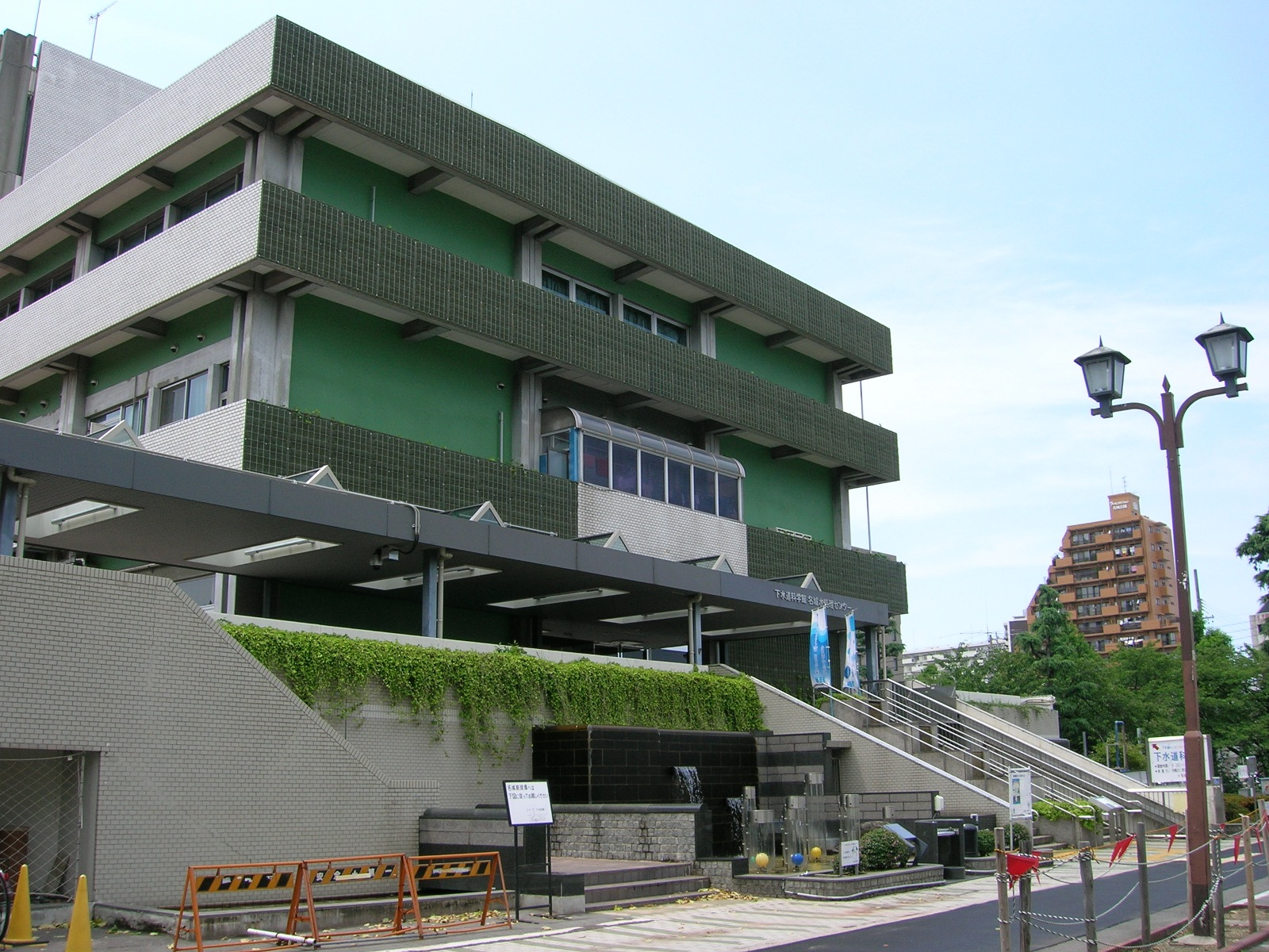 Meijō Water treament center (and Sewage Science Hall). Loc: Kita-ku, Nagoya city, Aichi Prefecture, Japan. 名城水処理センター（1階には名古屋市上下水道局の下水道科学館がある。） 撮影場所 愛知県名古屋市北区